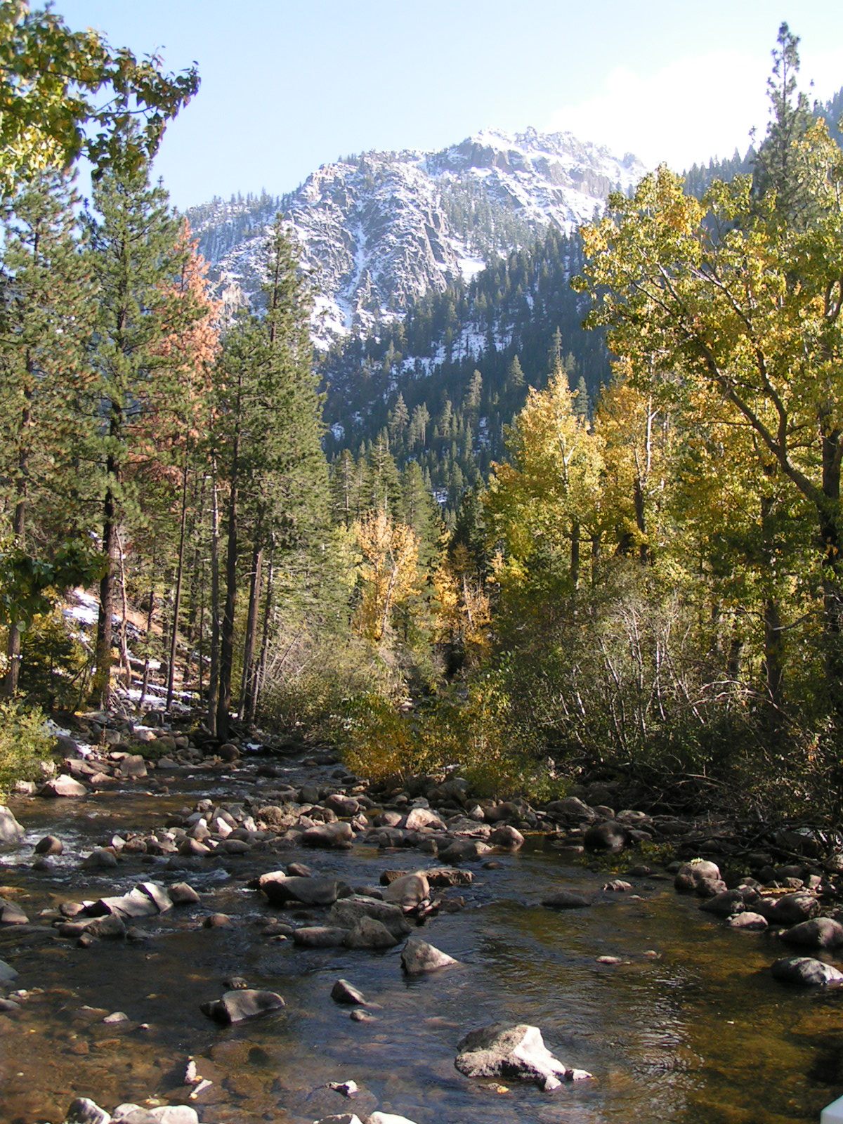 West Fork of the Carson River in the Sierra Nevada — just east of Hope Valley in Alpine County, eastern California.